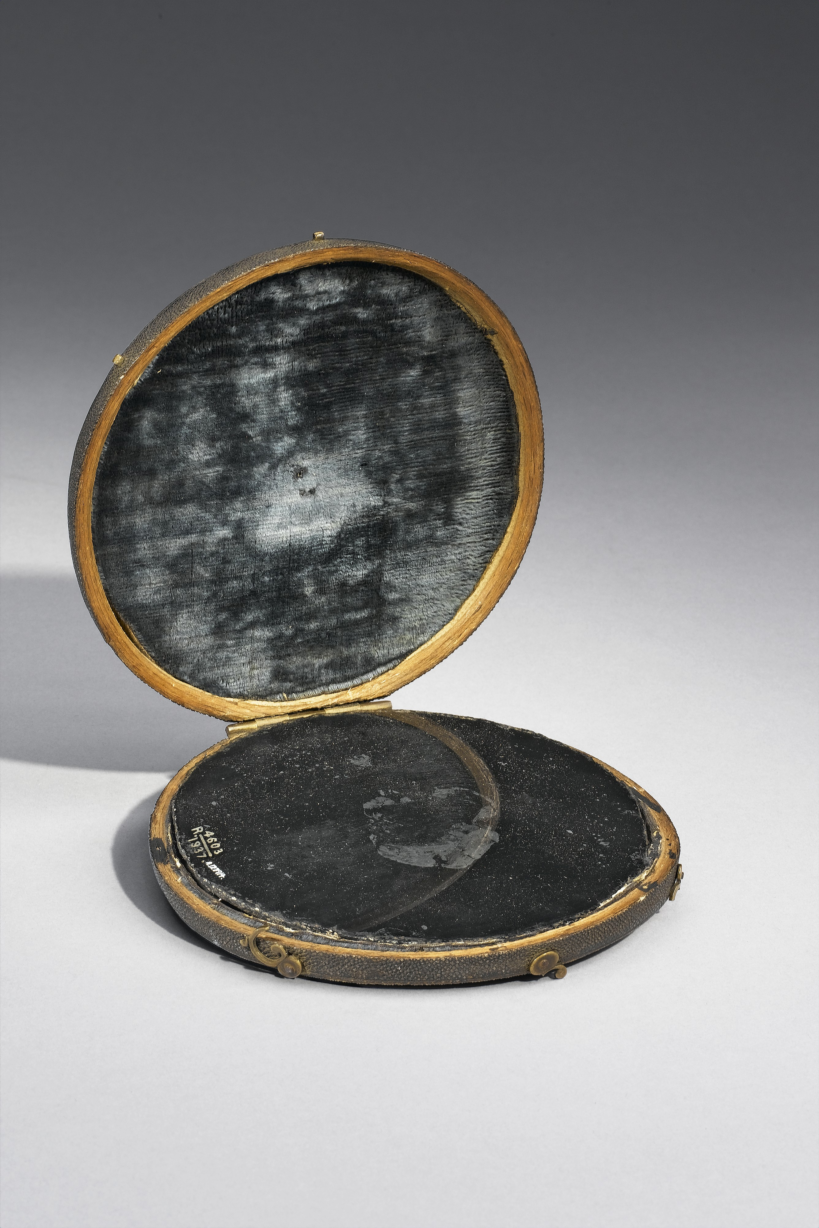 Claude Lorrain mirror in shark skin case, believed at one time to be John Dee's scrying mirror. Front three quarter view. Case open. Graduated grey background. Wellcome Images